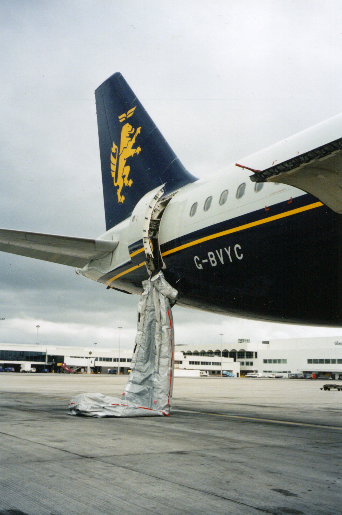 A deflated evacuation slide on the rear right exit of an Airbus A320, following inadvertent deployment.